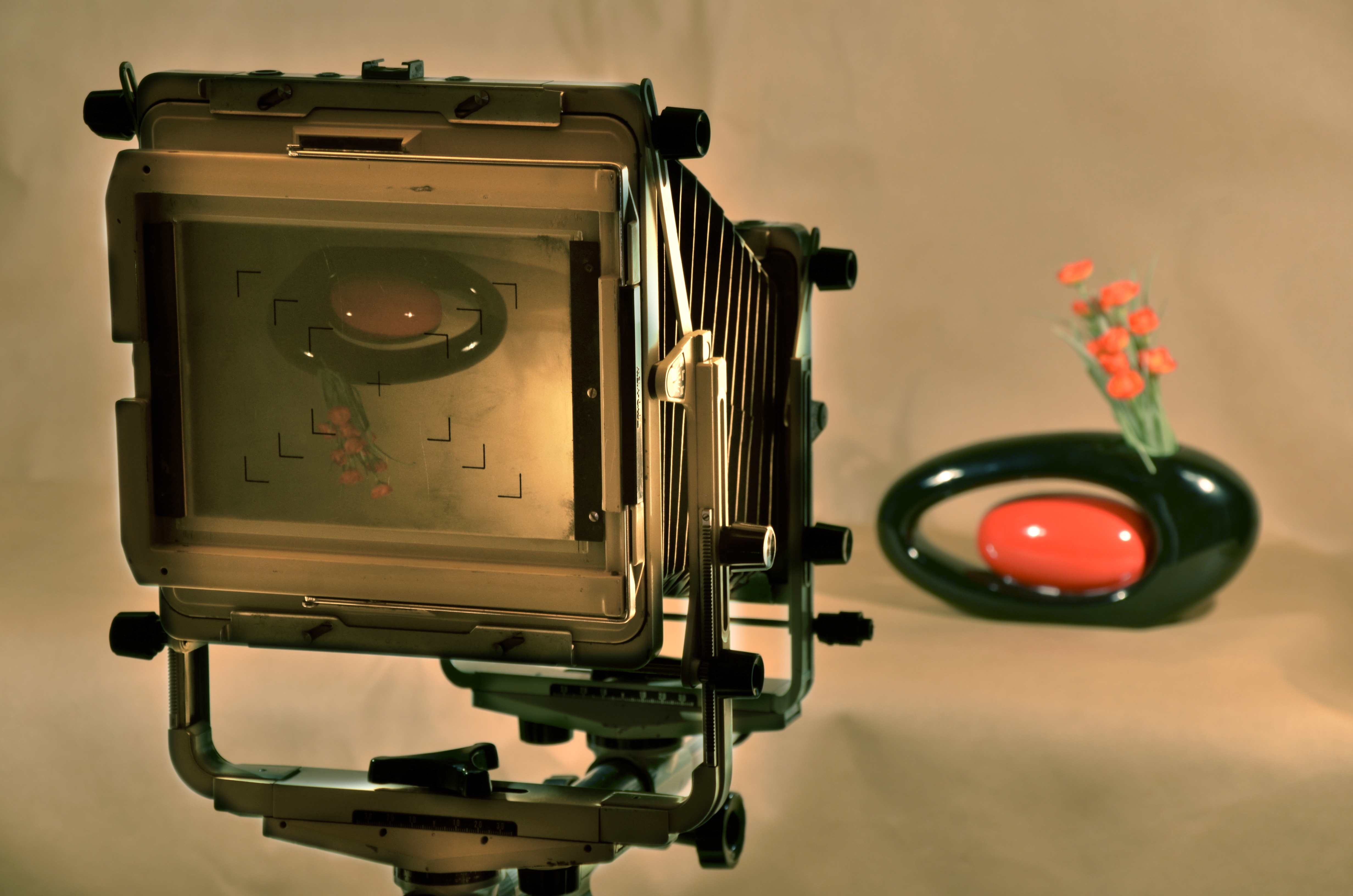 Toyo View camera